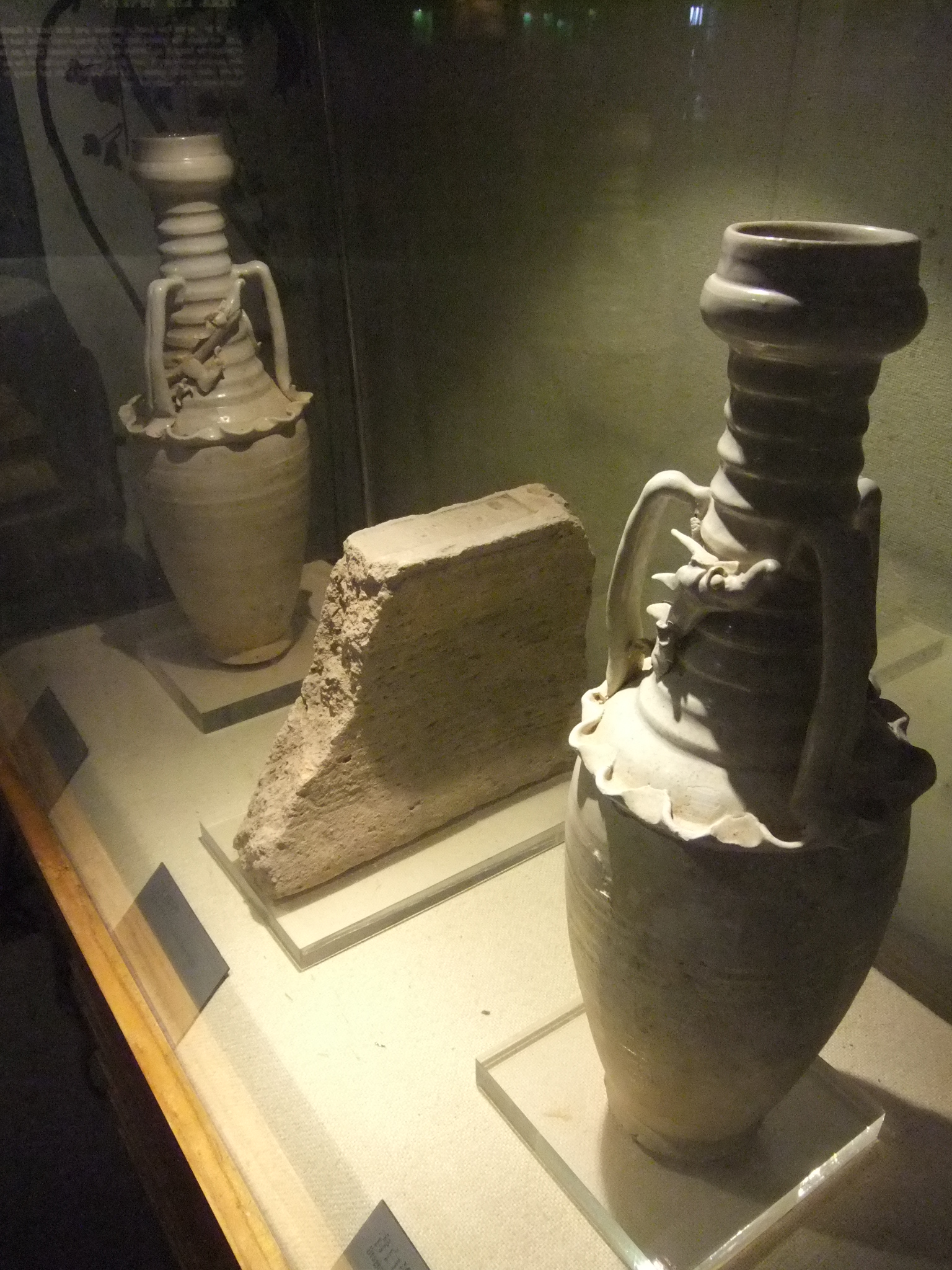 A collection of four Song Dynasty hunping vases, excavated in Heshi (河市), in Quanzhou Museum. Light green glaze porcelain.